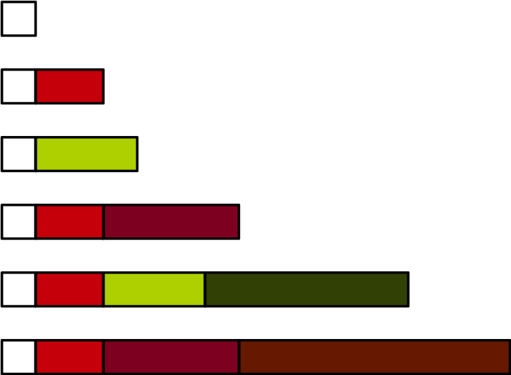 Showing, through Cuisenaire rods, that 6 is a highly abundant number.